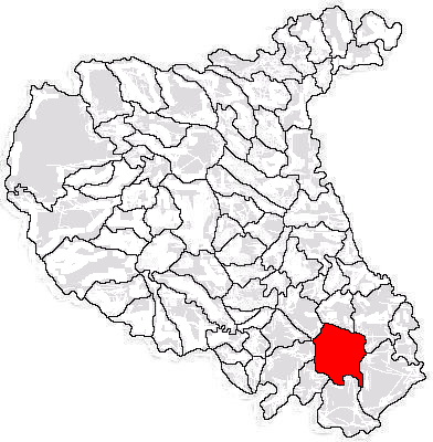 Limits of commune within Vrancea County